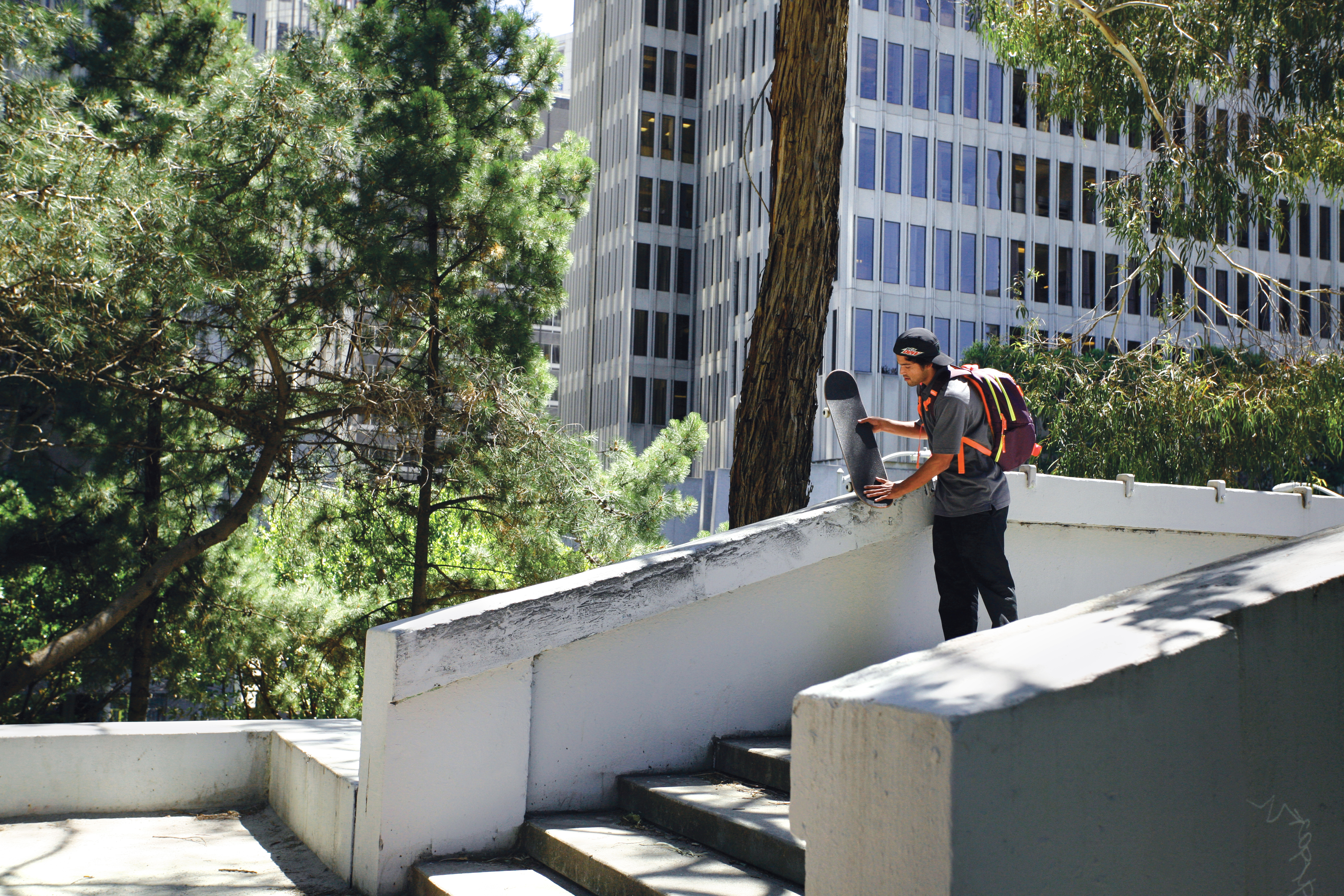 At Financial District, San Francisco, CA, US